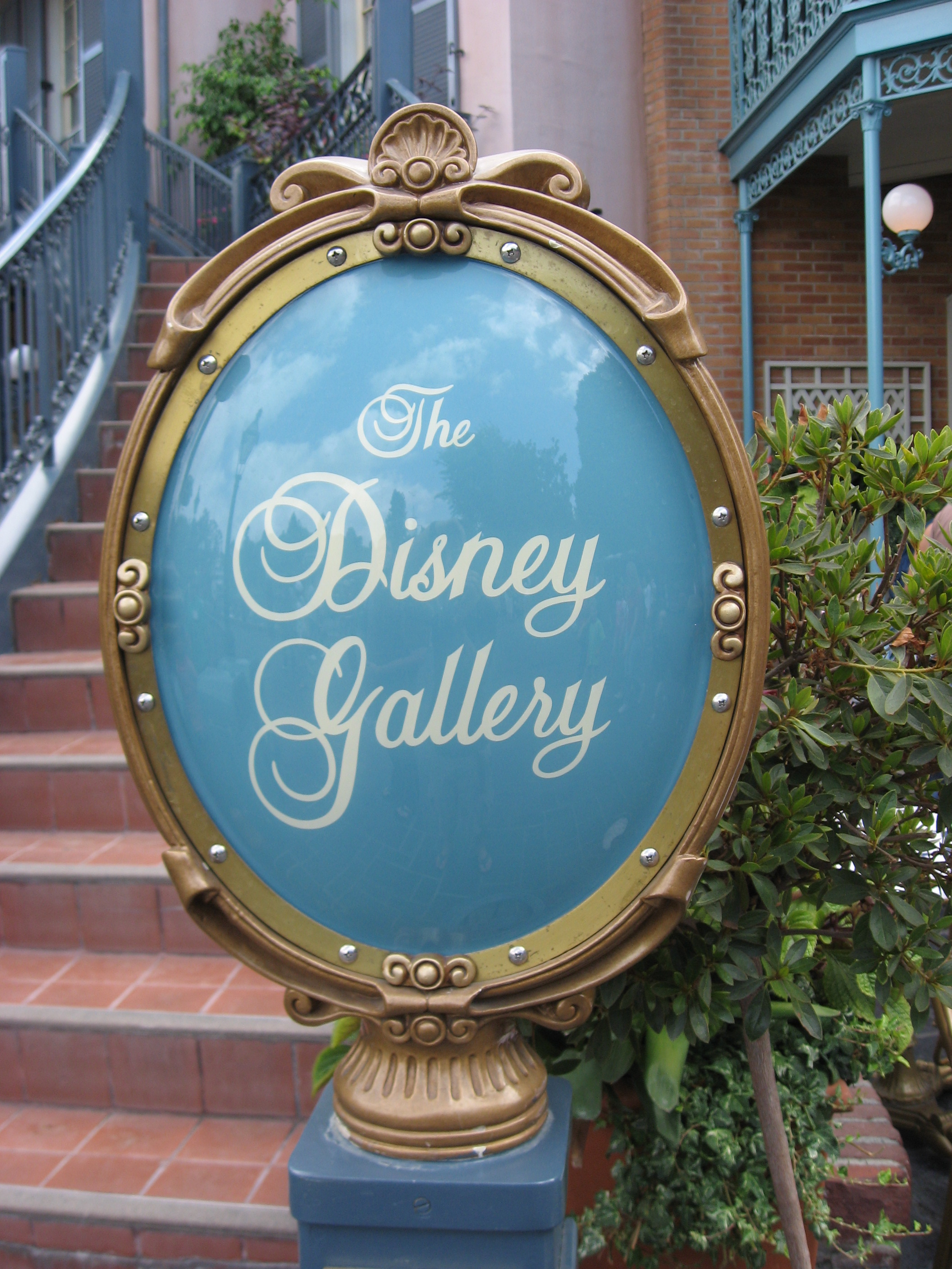 The Disney Gallery sign at Disneyland.